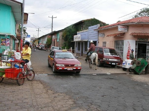 A street scene in Juigalpa, Nicaragua. Unfortunately I am not sure where my original source file is; this is a relatively low res version I uploaded to my Facebook account.